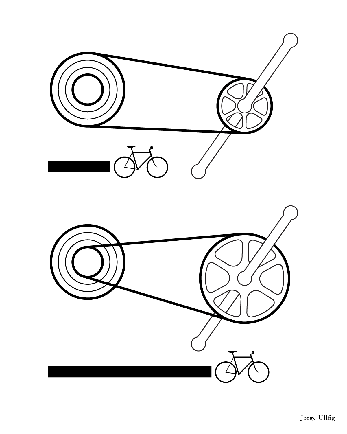 Illustration created in illustrator and photoshop from public domain data information obtained from several internet sources and printed Atlases.